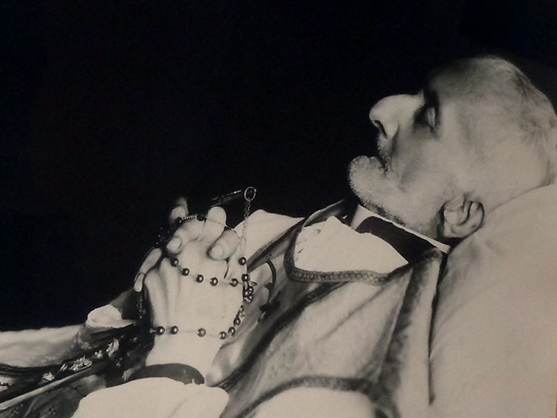 Father Dehon on his deathbed, 1925